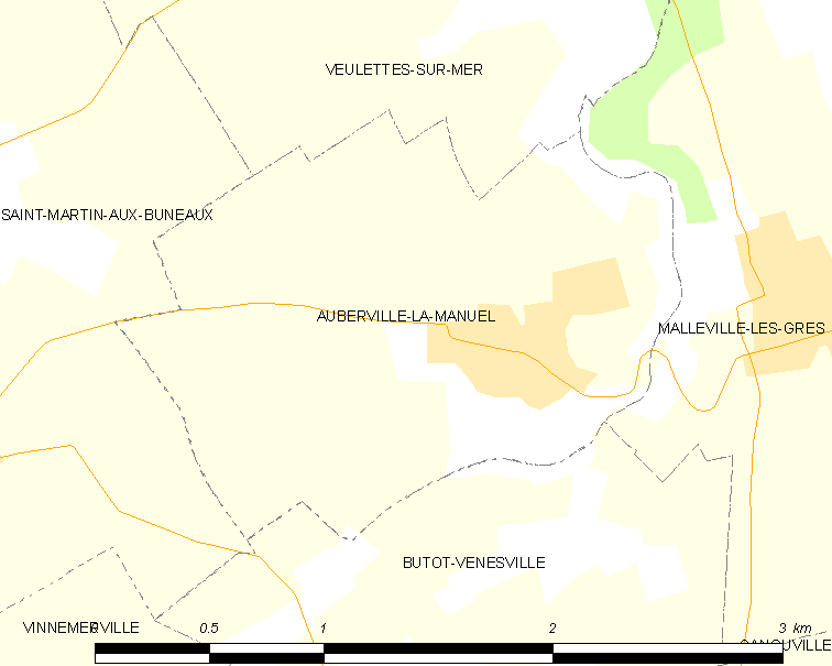 Map of French municipality Auberville-la-Manuel